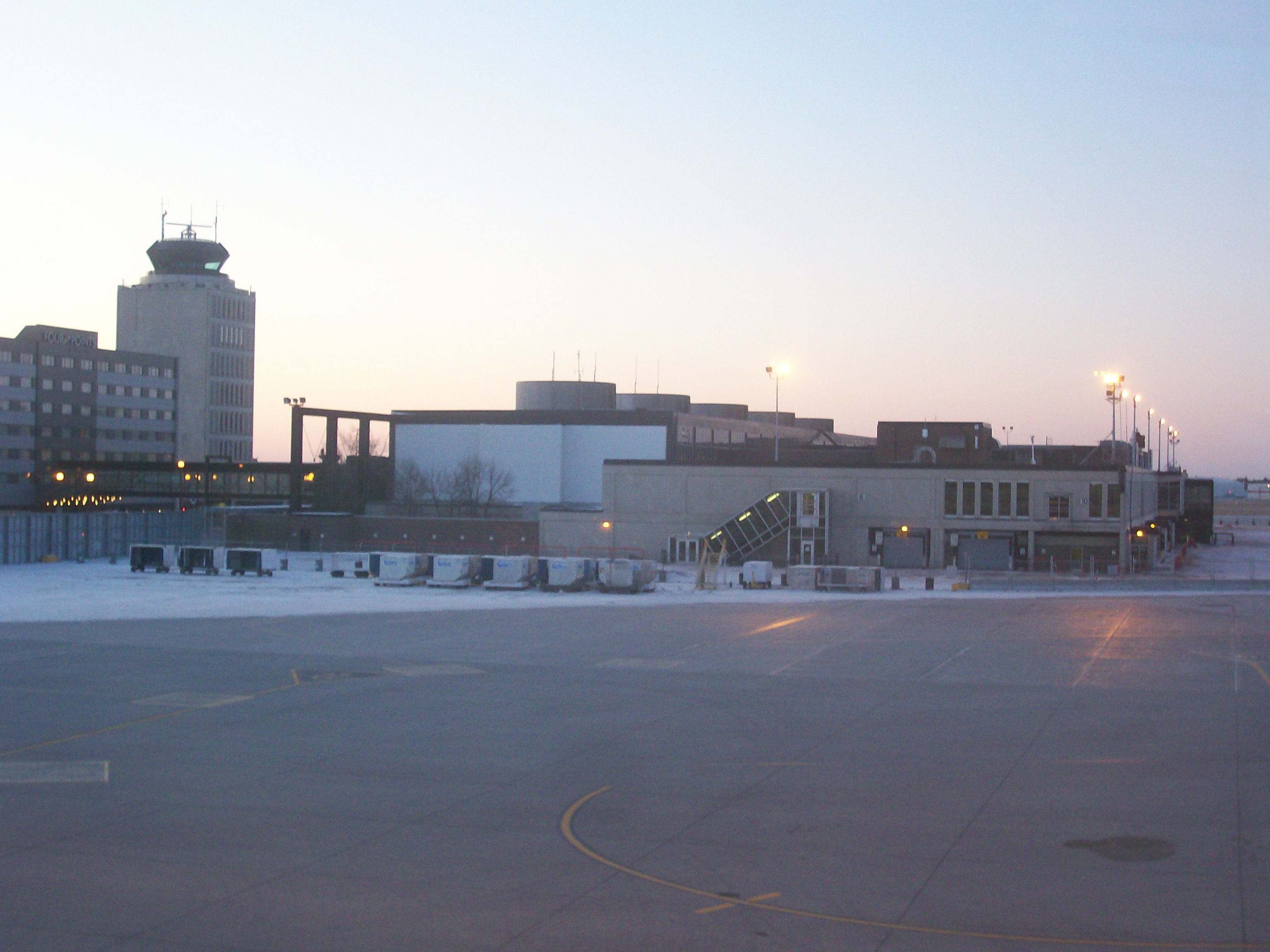 The abandoned former terminal at Winnipeg James Armstrong Richardson International Airport, as seen from the new terminal in December 2011.